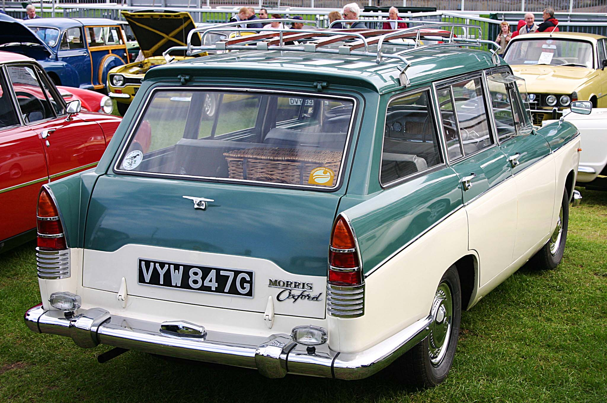 Travellers (and Countryman) estates did not receive revised rear fins in the 1961 facelift, the originally pressings continued.